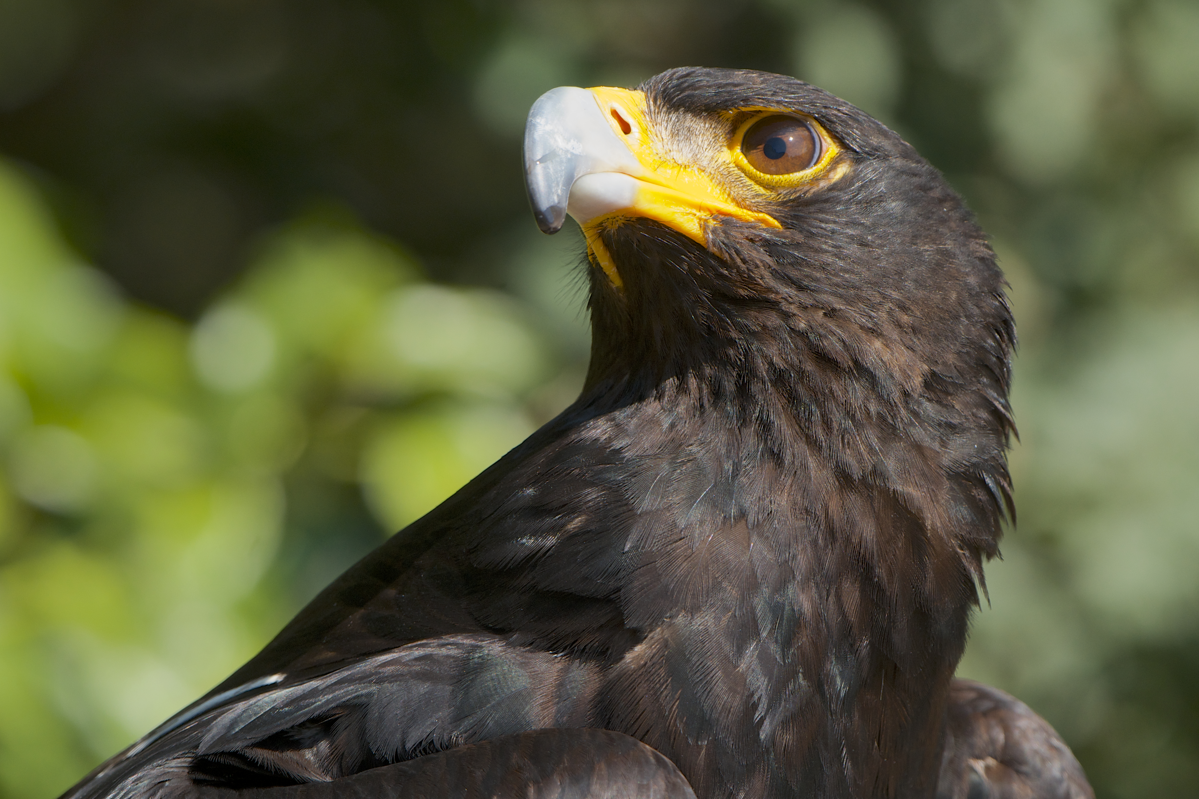 Closeup portrait of a Verreaux's Eagle Aquila verreauxii, taken in controlled conditions